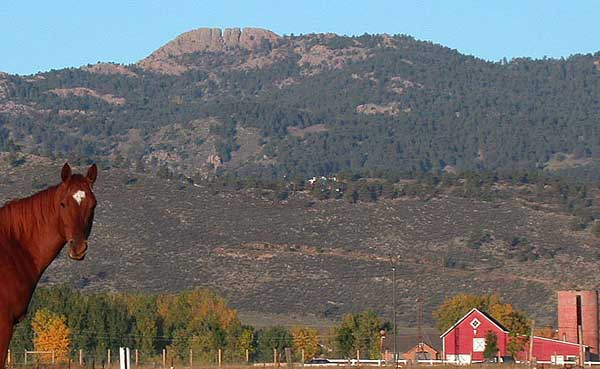 Horsetooth Mountain seen from Fort Collins, Colorado, USA